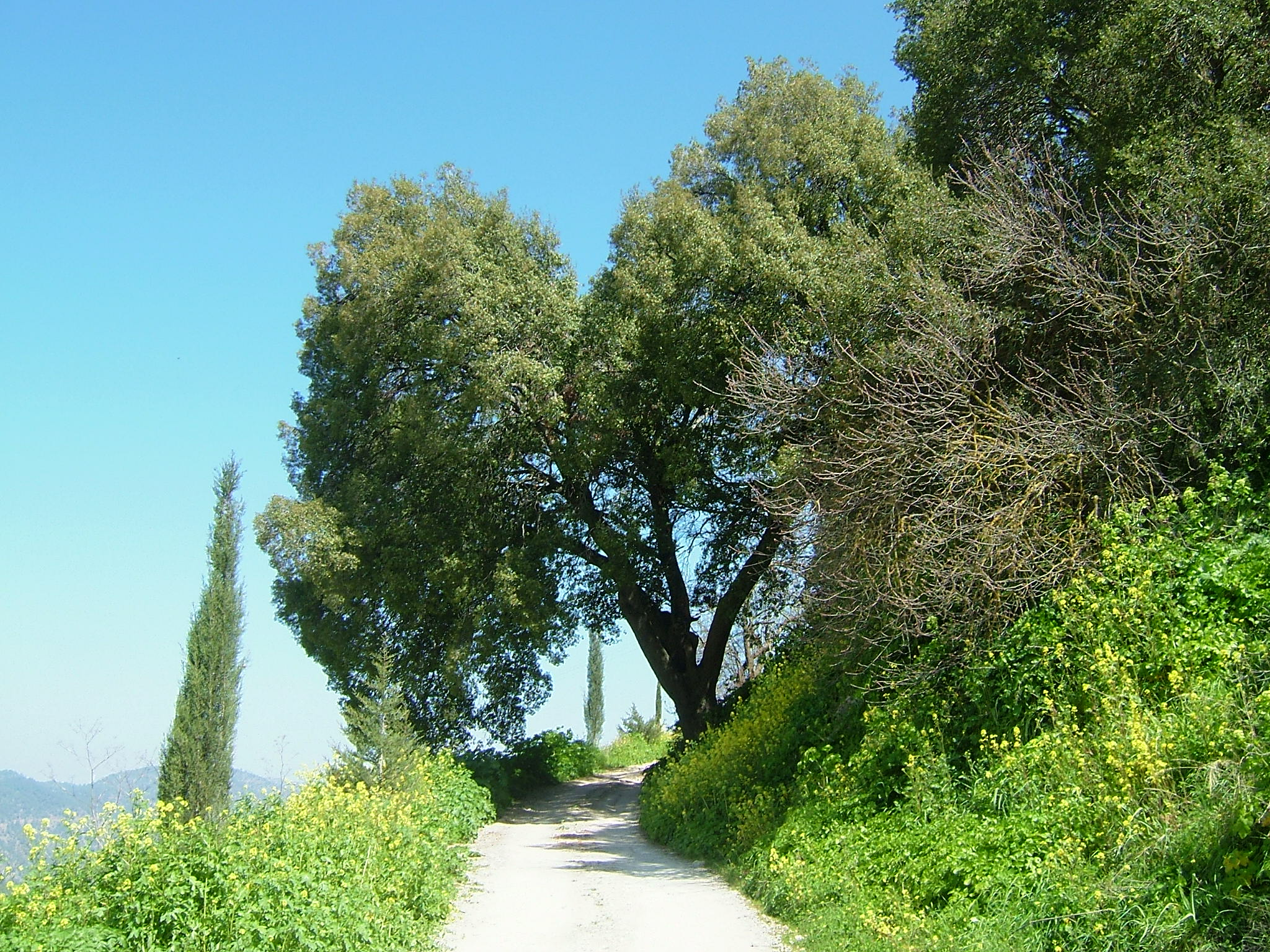 Quercus coccifera in Troodos, Cyprus